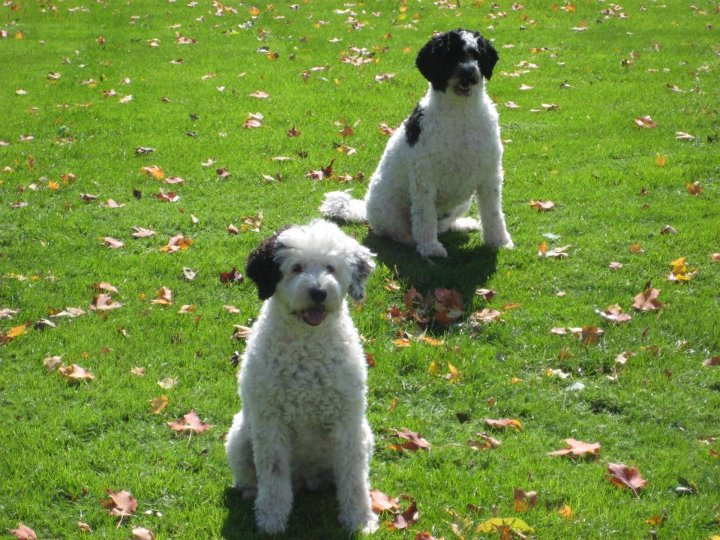 Two White and Black Portuguese Water Dogs, Curly Coated in the Front and Wavy in the Back